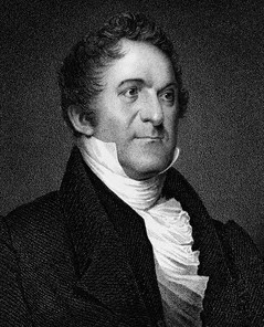 Picture of William Wirt (Attorney General).